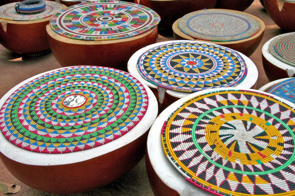 In Paoua, women communities receive help from the Danish Refugee Council to set up small businesses.